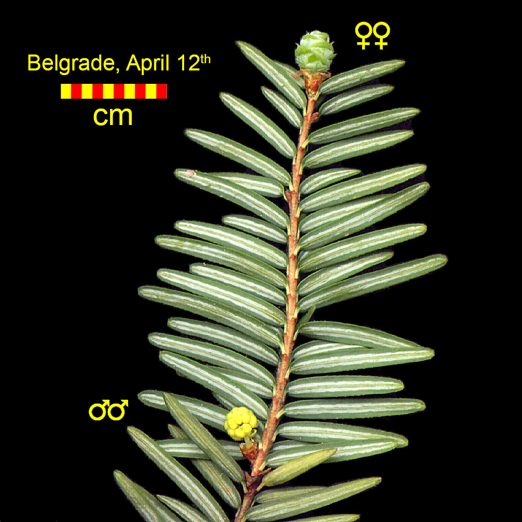 Tsuga canadensis, female and male strobili